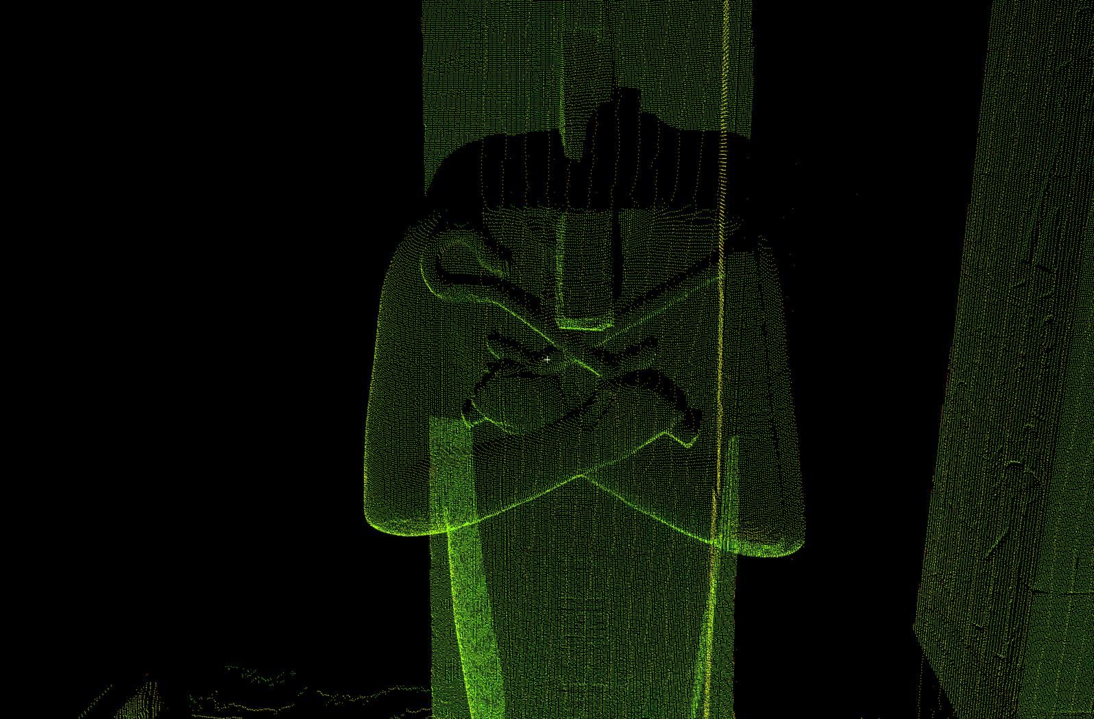 3D laser scanner point cloud image of a headless Osirid pillar, second court of Thebes' Ramesseum, Egypt. The walls and pillars of the second court are more intact than those of the first court; it has porticos on 4 sides and Osirid pillars on the east and west sides depicting Ramesses as the mummified Osiris. It is flanked both east and west by pillared statues of Ramesses.